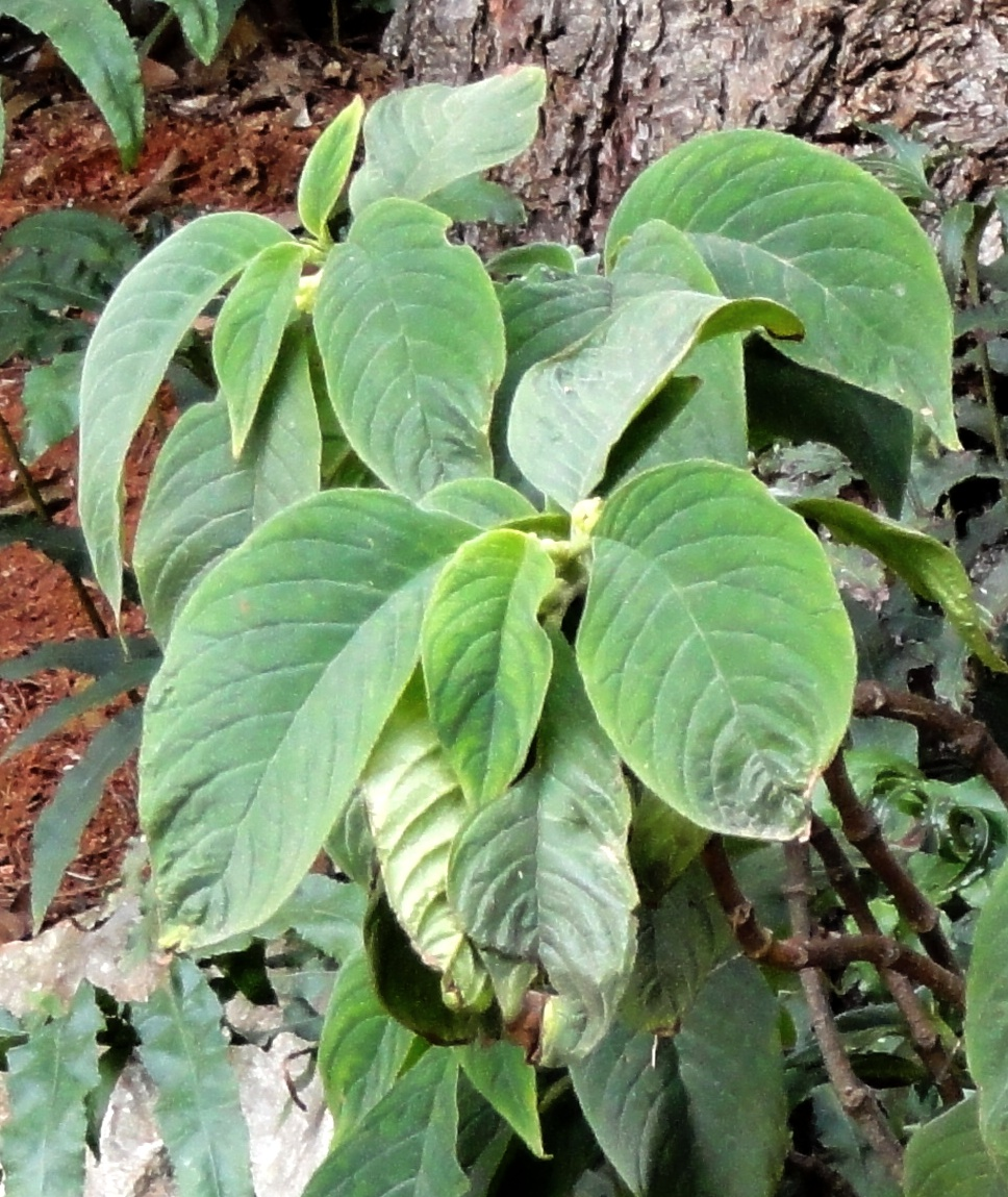 Anna mollifolia in the Kunming Botanical Garden, Kunming, Yunnan, China.